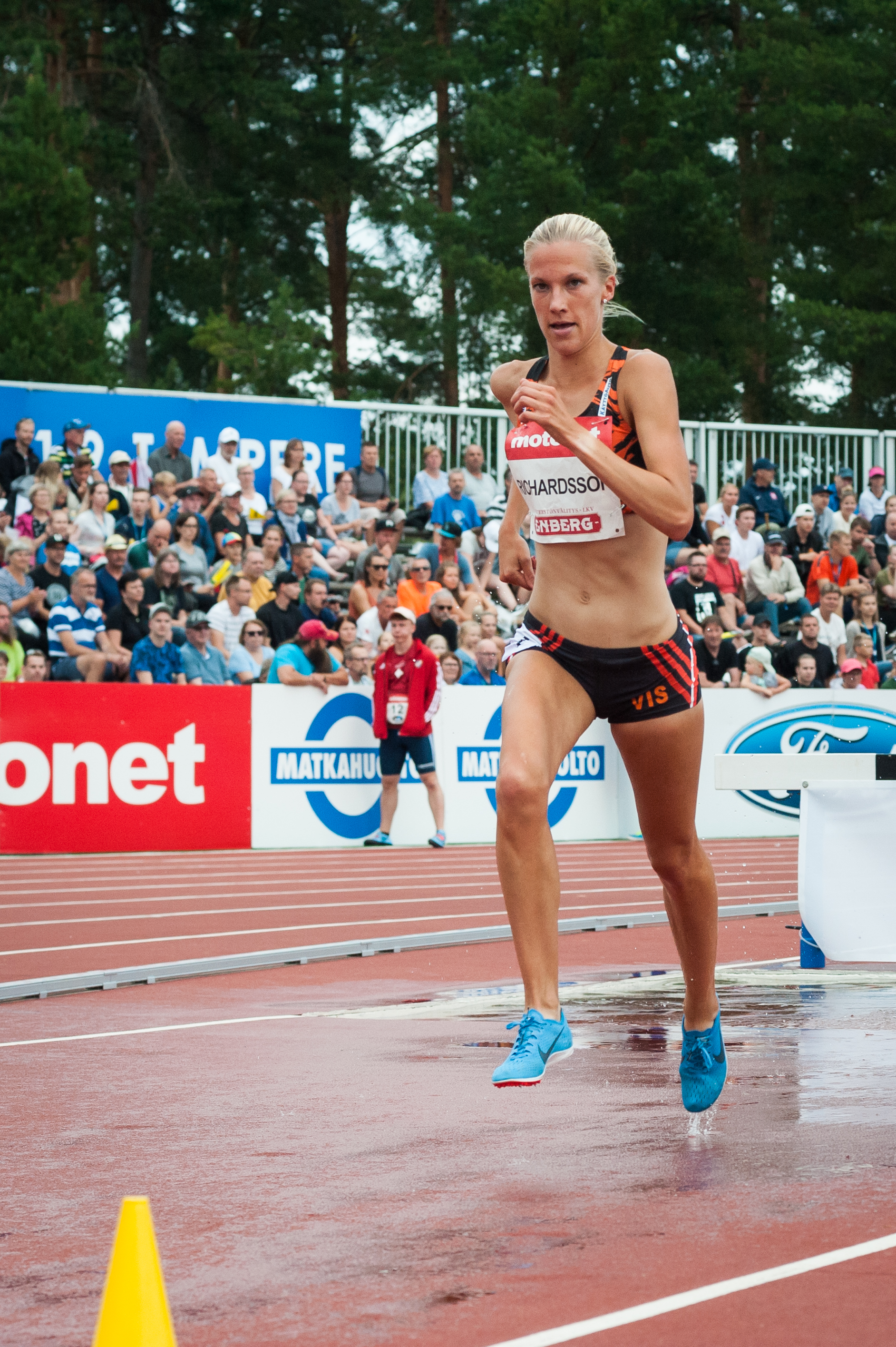 Women's 3000 m steeplechase competition at the 2018 Kalevan Kisat, the Finnish championships in athletics, in Jyväskylä, Finland.